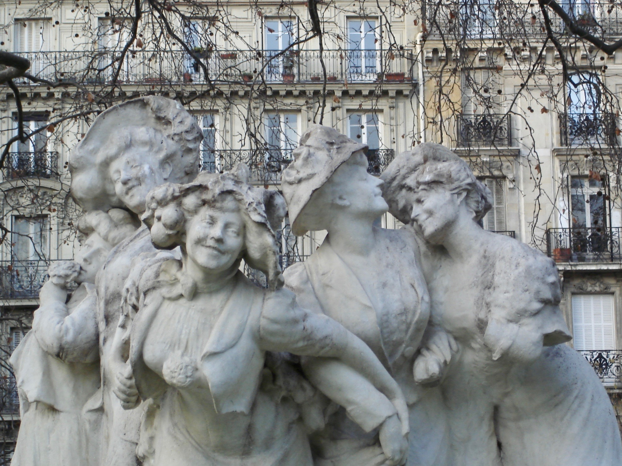 Statue dedicated to the "Ouvrière Parisienne" (To: The Parisian Workwomen), located in Montholon garden; Paris 10e (detail)